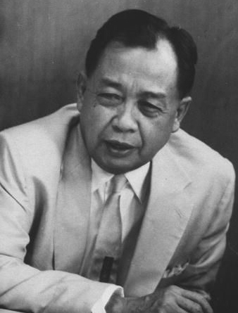 Claro M. Recto